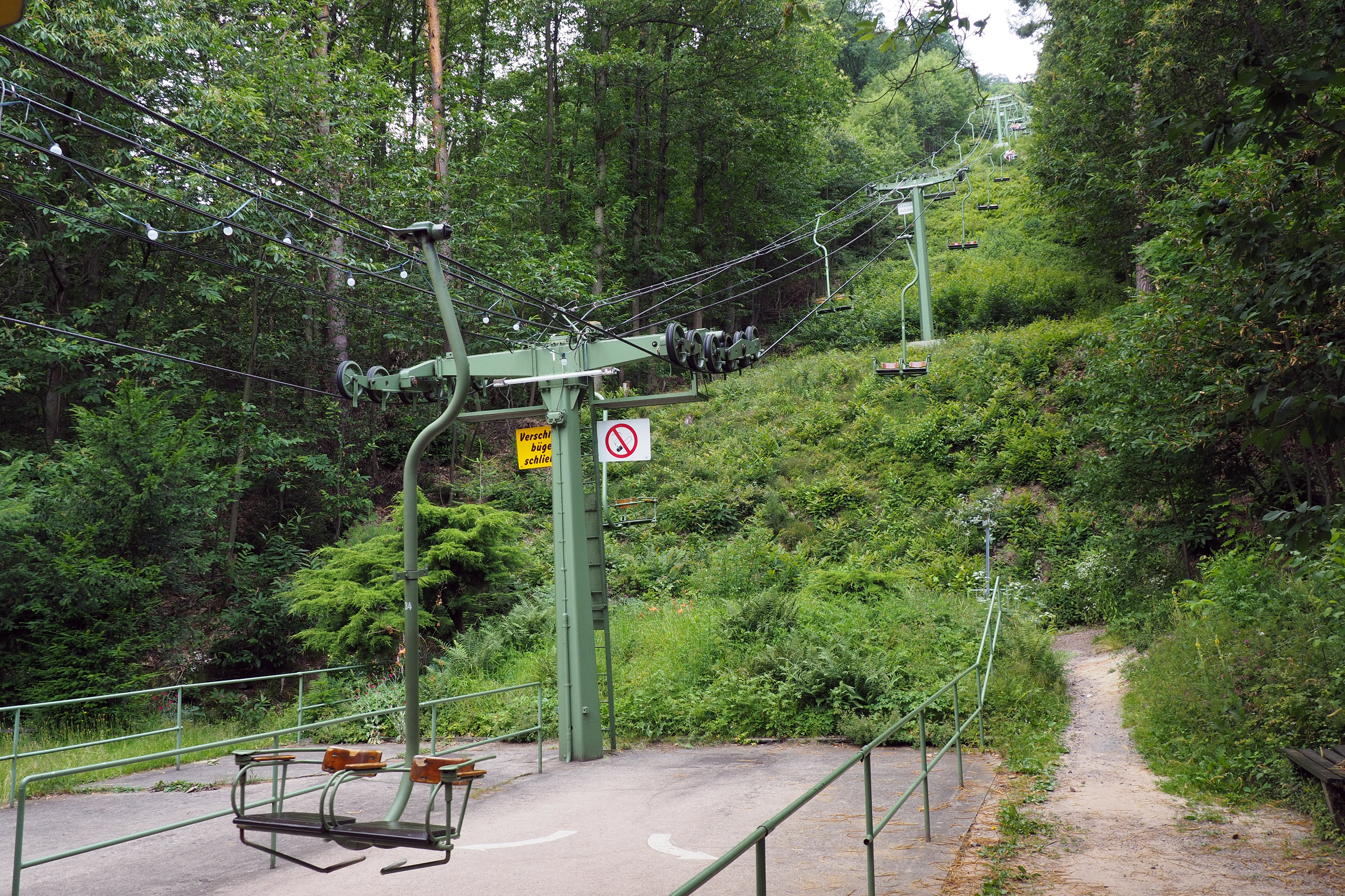 Rietburgbahn